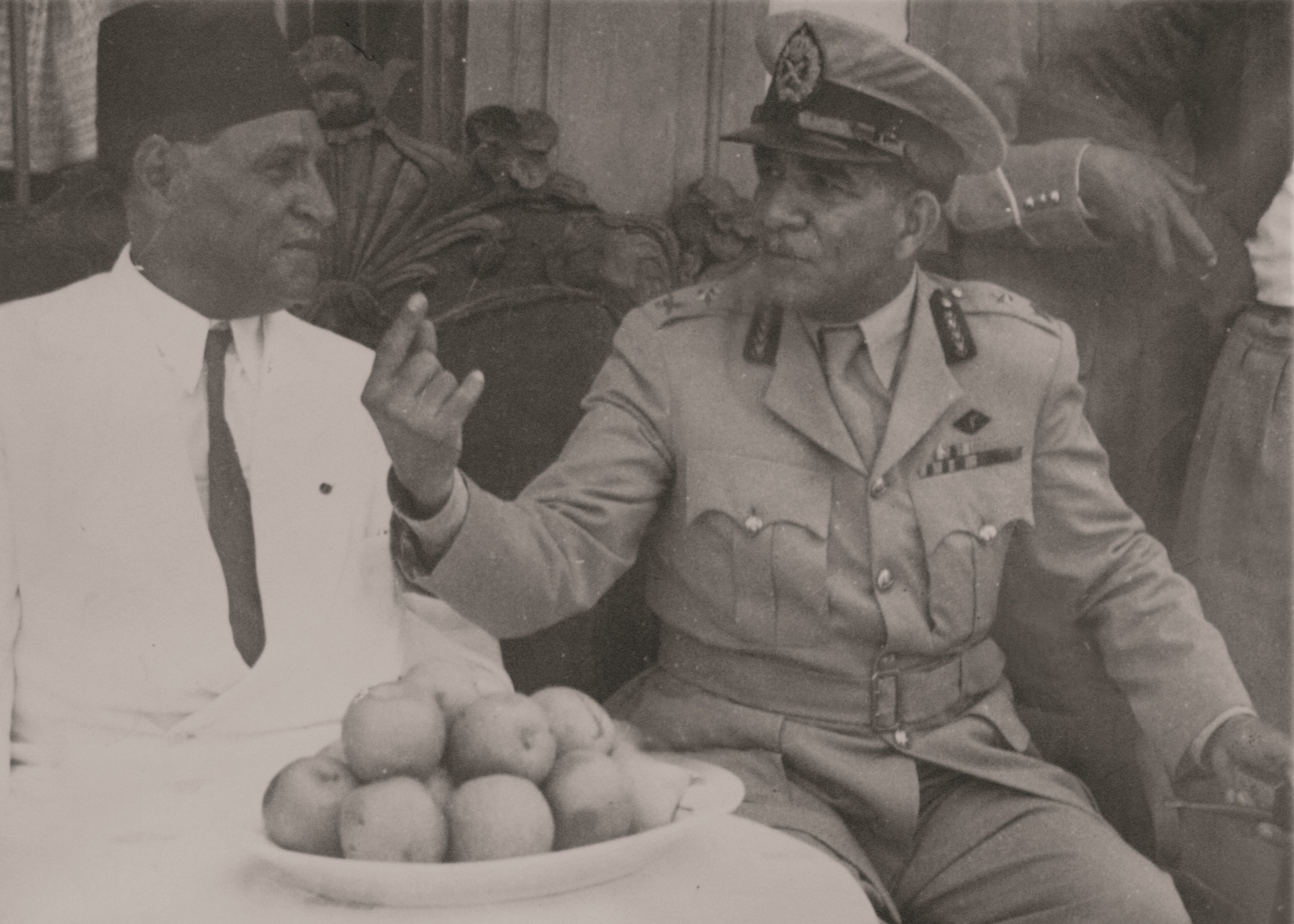 Muhammad Naguib in khan younis